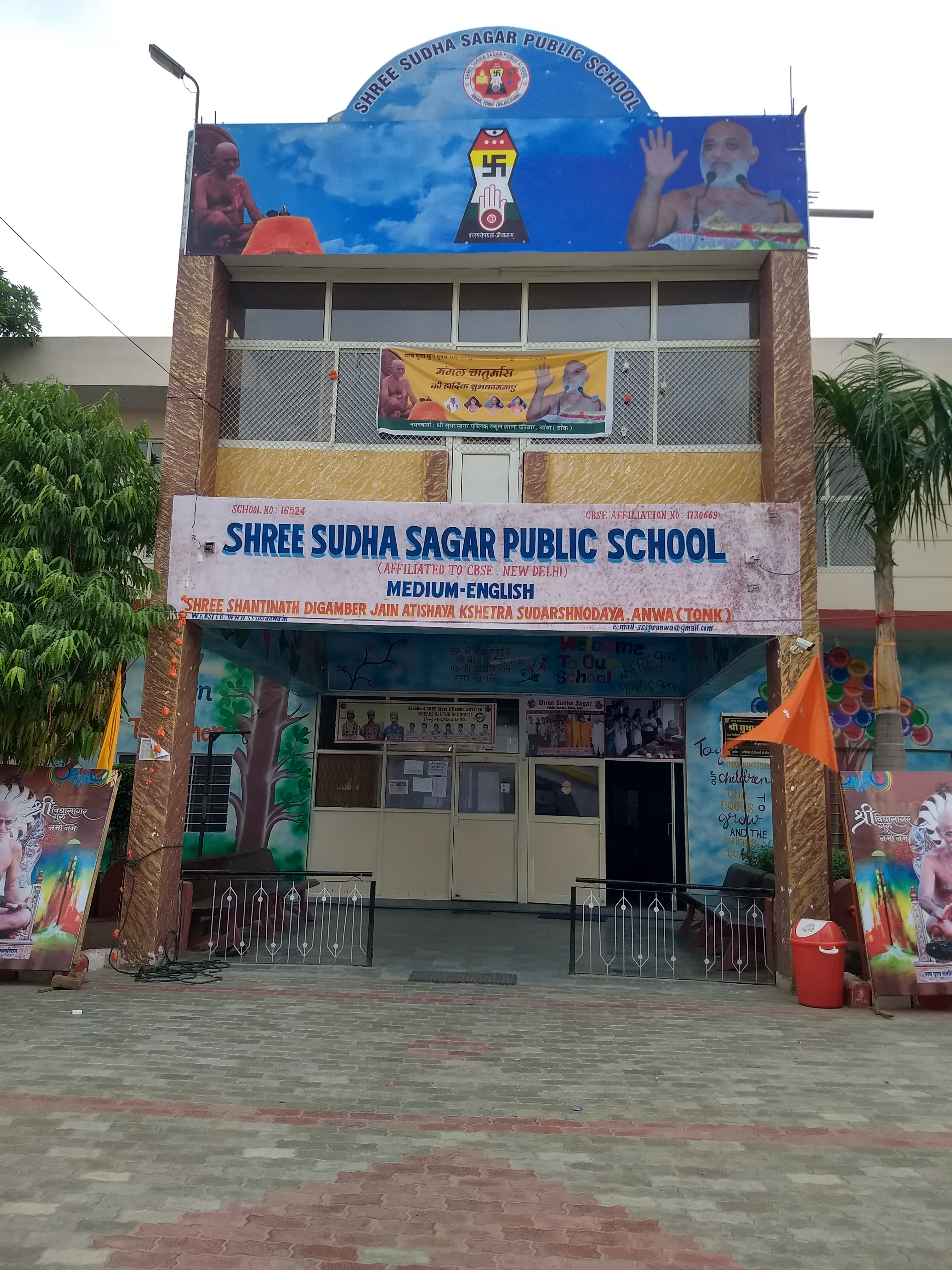 Sudarshanaoday Teerth Kshetra Anwa